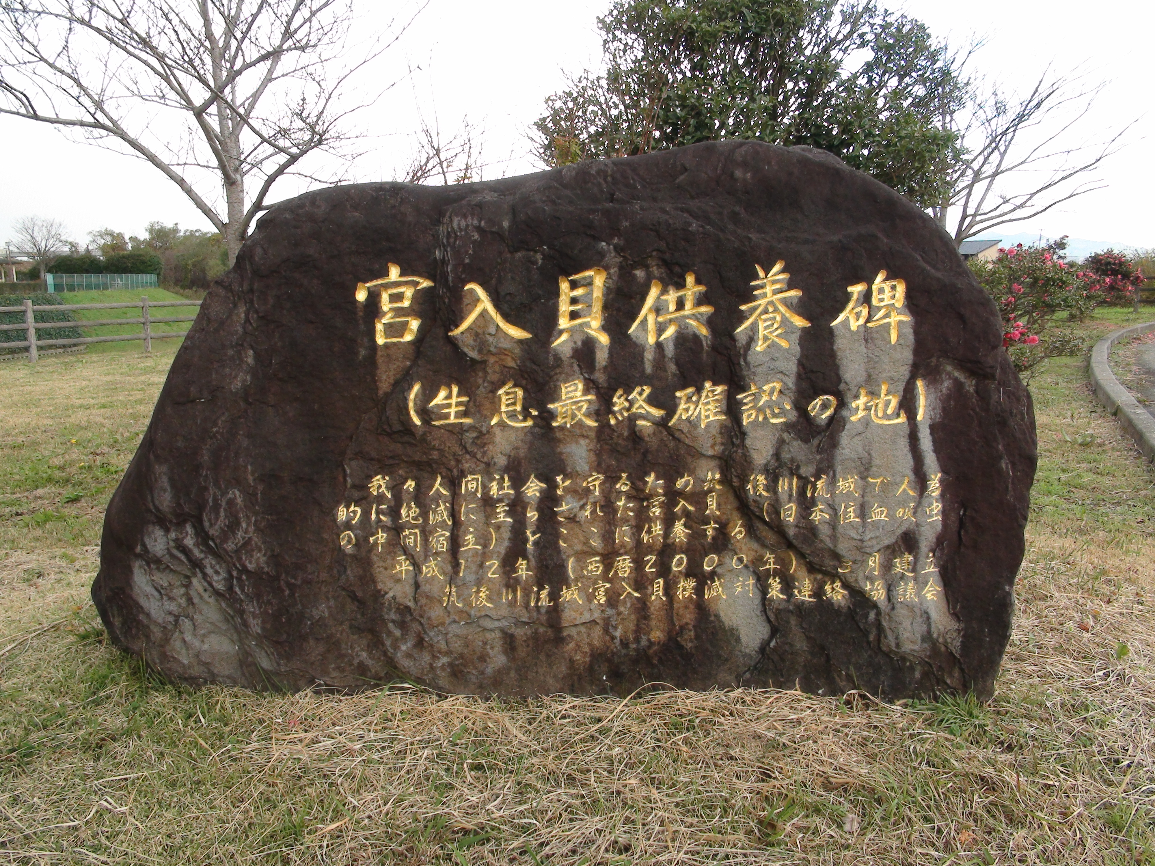 Oncomelania nosophora cenotaph. Chikugo River area.